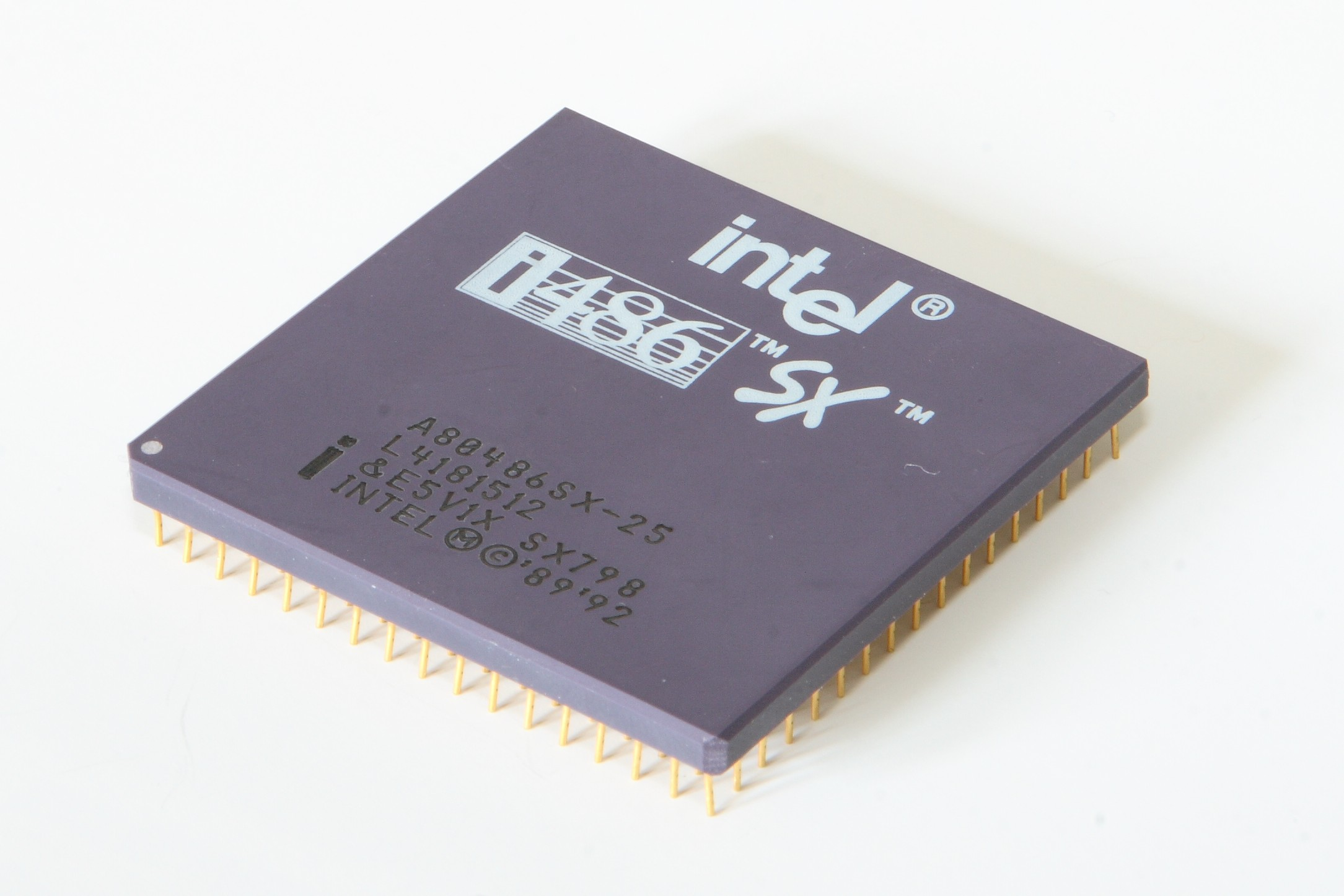 Intel i486 SX 25Mhz Camera data Camera Canon EOS 30D Lens Canon EF 24-70 mm 2.8 L USM Focal length 70 mm Aperture f/19 Exposure time 15 s Sensivity ISO 100 Image Editing Programs Canon Digital Photo Professional